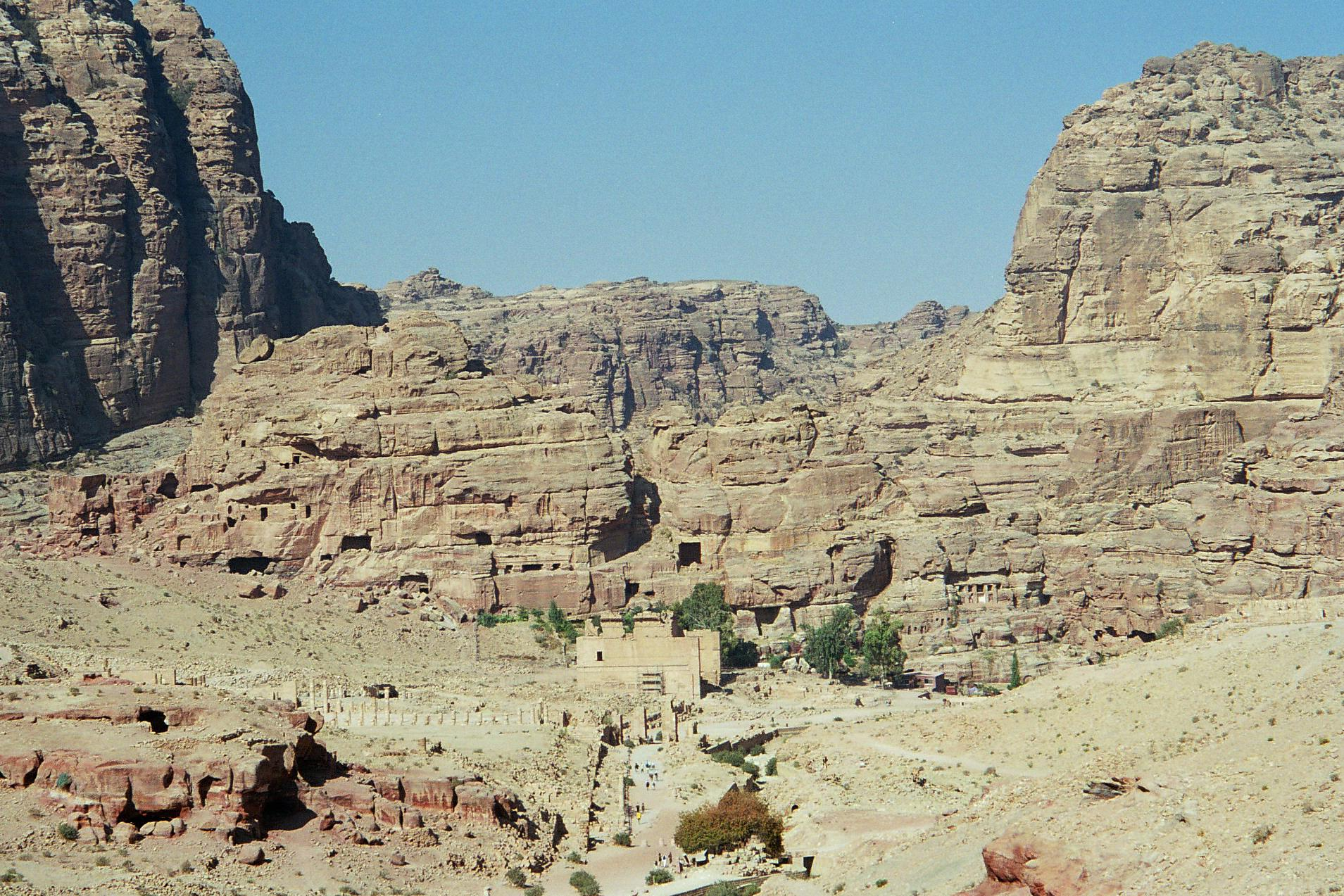 Downtown Petra. Most of the few roman ruins left are visible (Cardo Maximus, Great Temple, Temenos gateway) with Qasr al-Bint behind